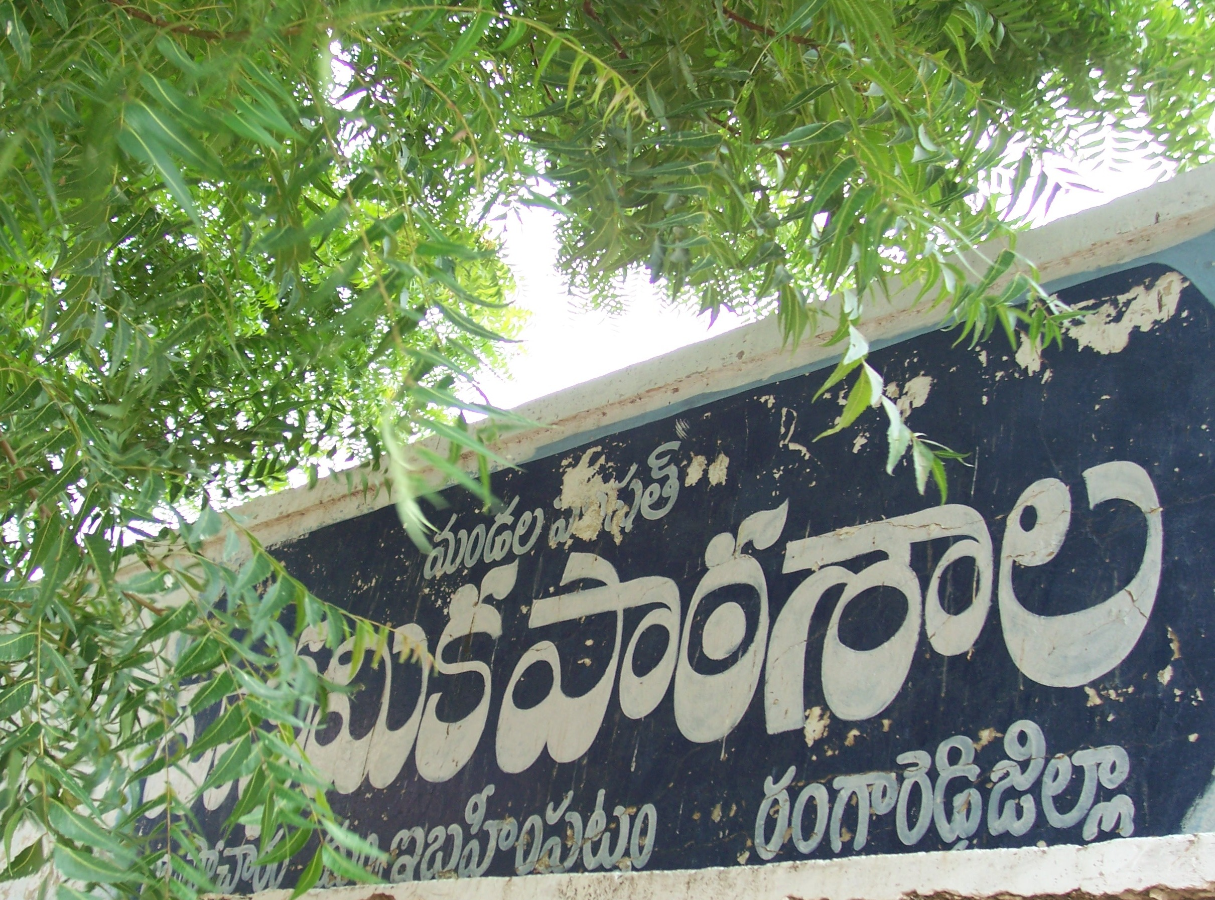 primary school